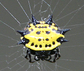 Jeff Olszewski, Picture taken outside of house.